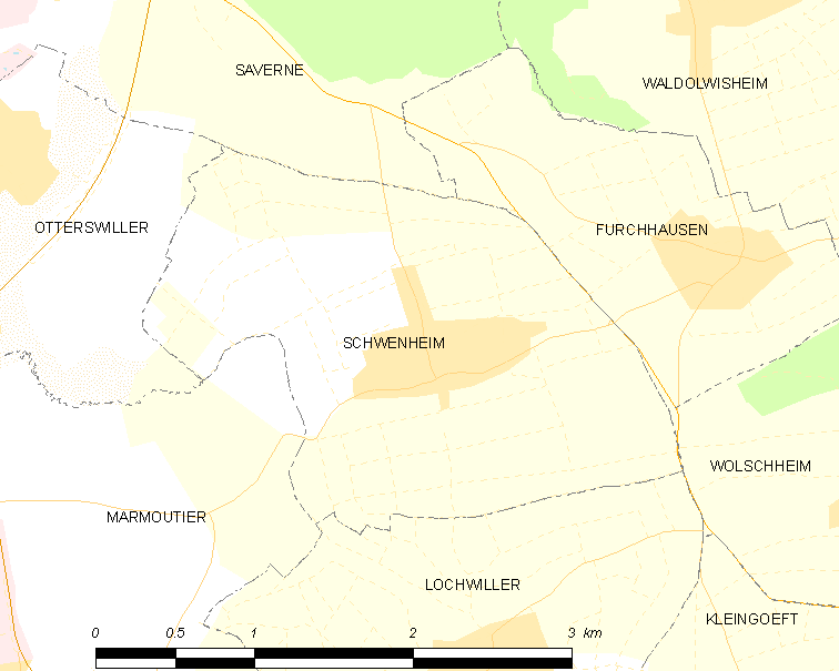 Map of French municipality